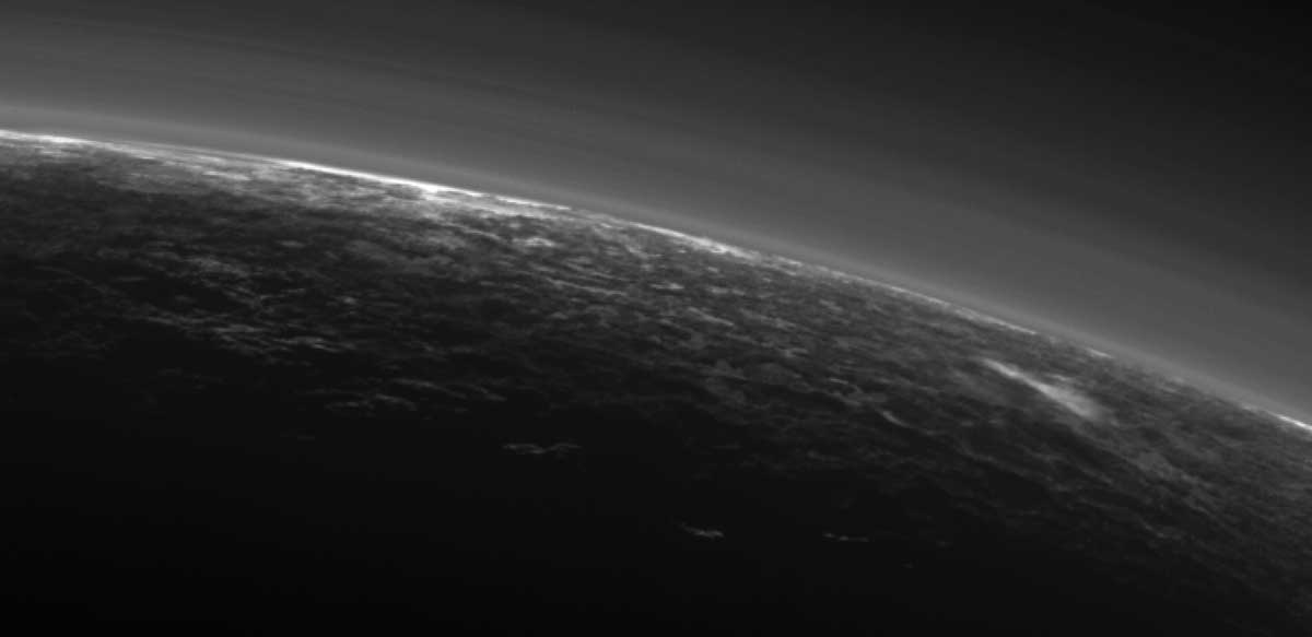 Images taken by NASA's New Horizons probe of possible clouds in the atmosphere